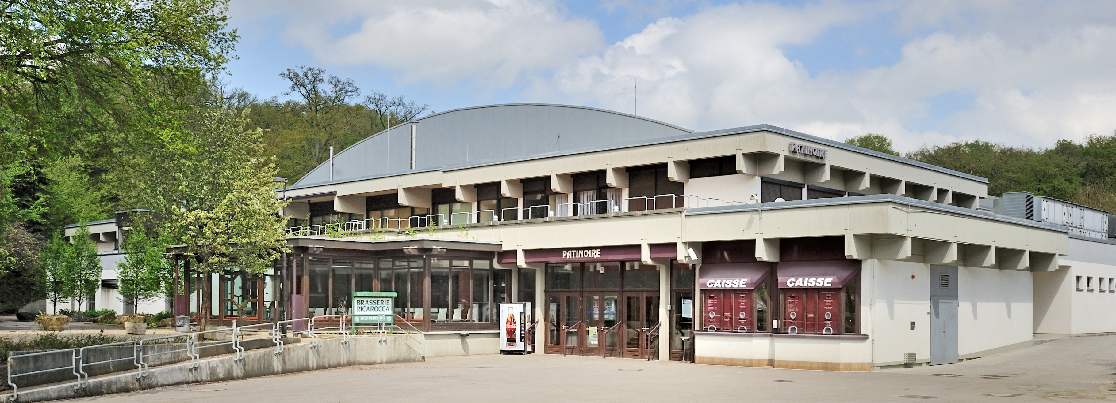 Luxembourg City: Ice rink at Kockelscheuer.